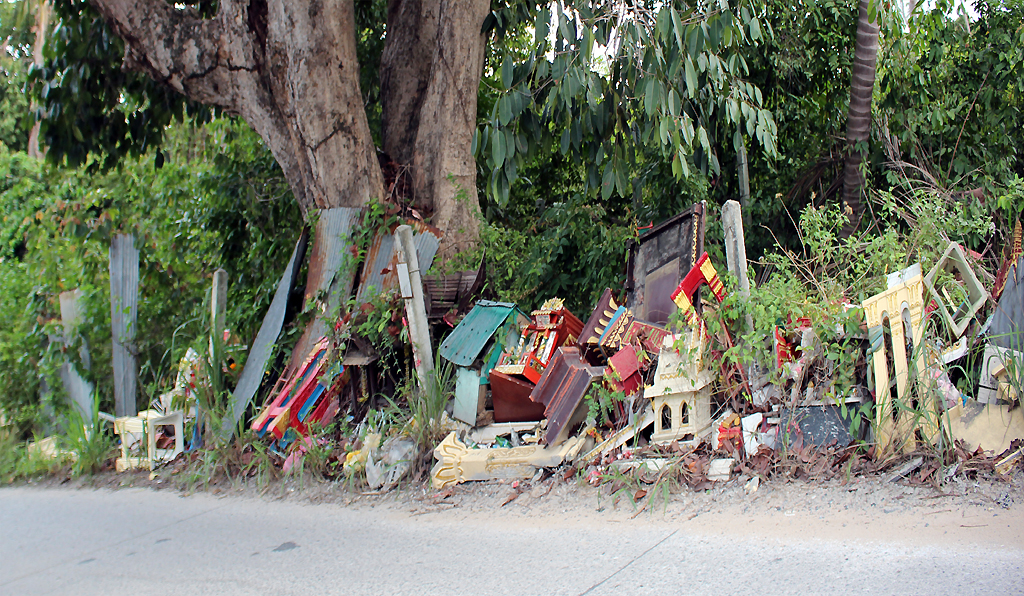 So-called "Ghost Road" at Koh Samui, where many discarded Spirit Houses are left behind in the road side.